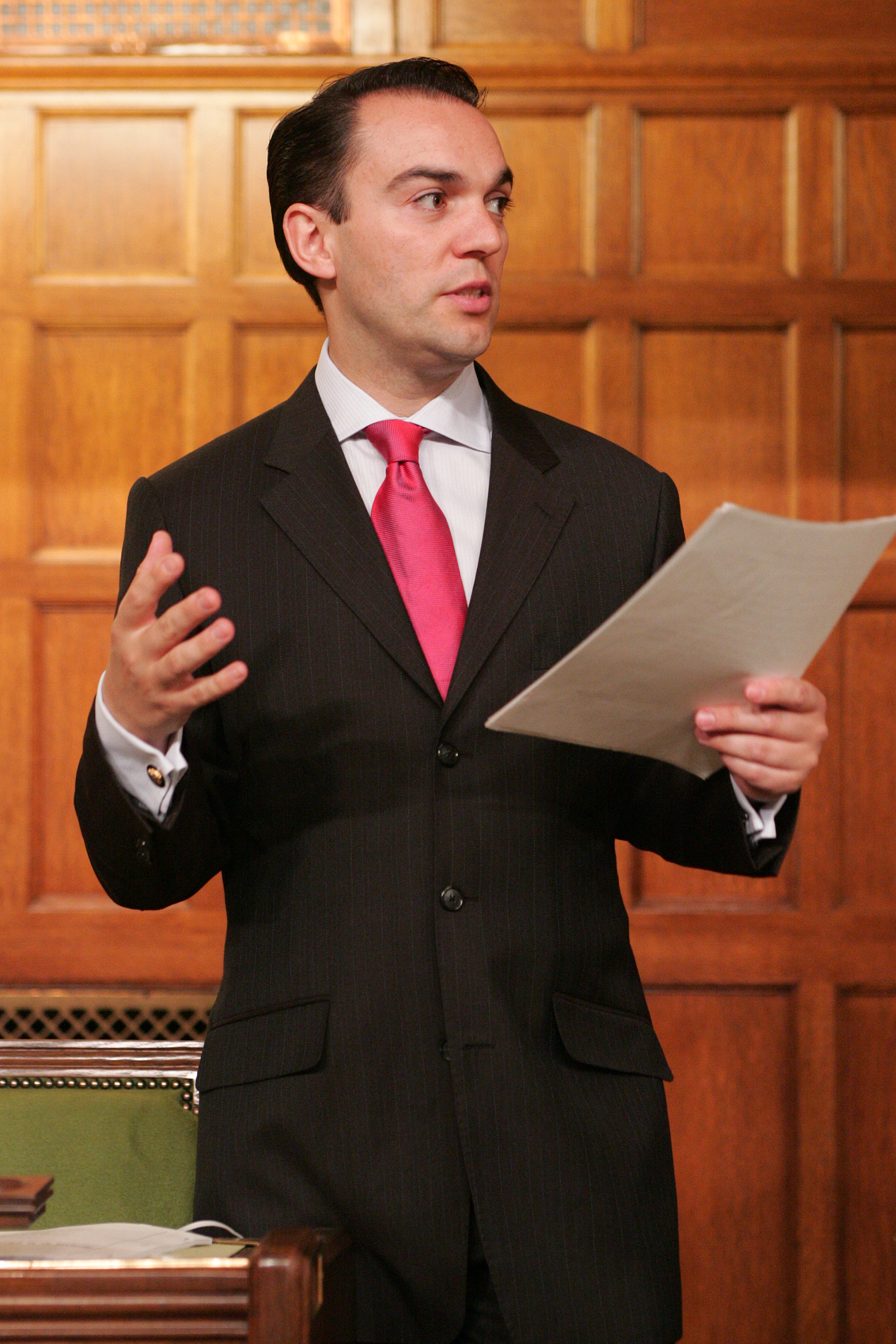 Mario Silva, MP (born June 11, 1966) is a Canadian politician and is one of two MPs of Portuguese descent in the Canadian Parliament. Silva is a former a Toronto City Councillor (1994-2003) and acting mayor. He moved to federal politics, being elected for the Liberal Party of Canada in the 2004 election in the riding of Davenport.